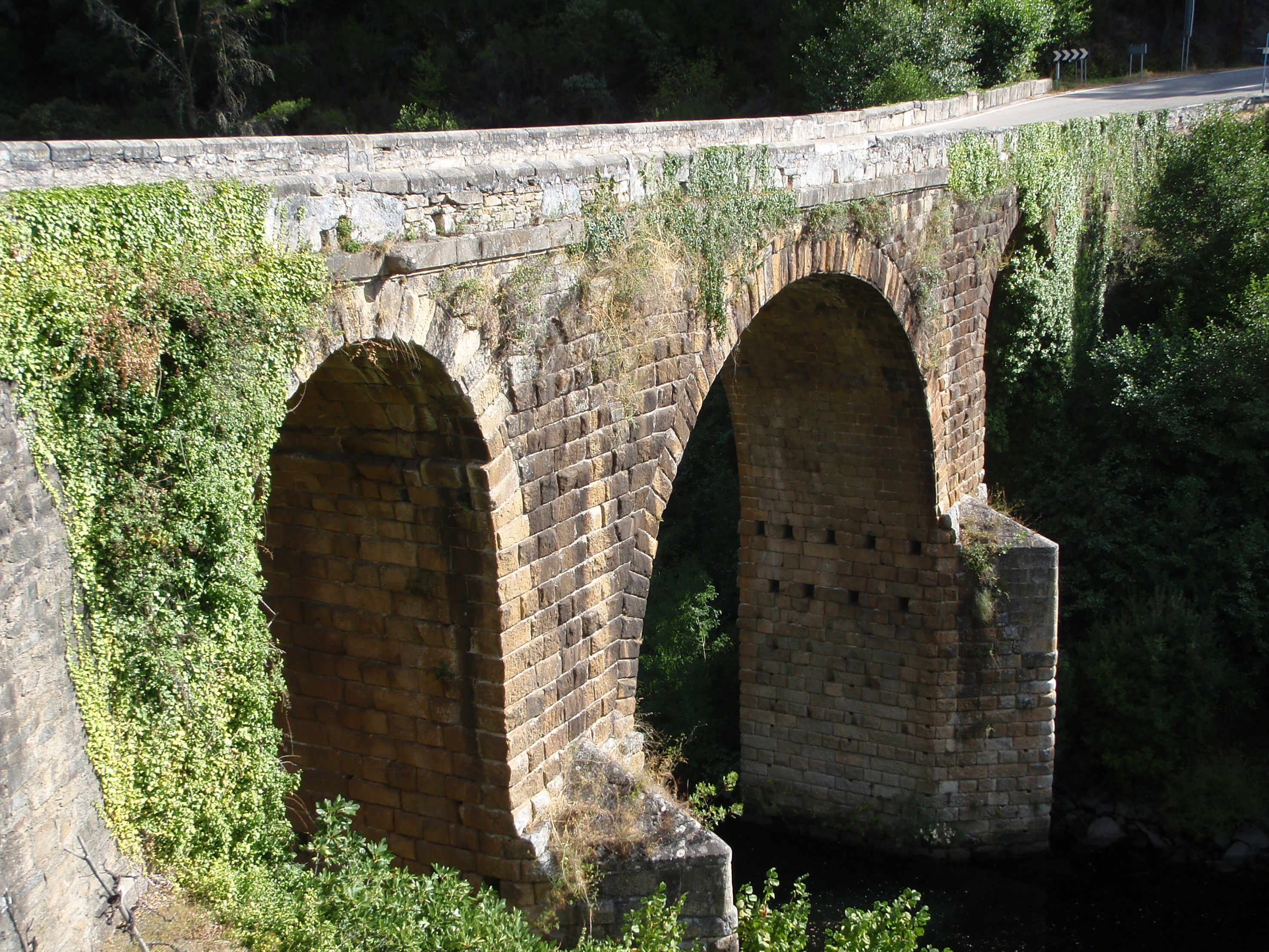 Roman bridge crossing Bibey river